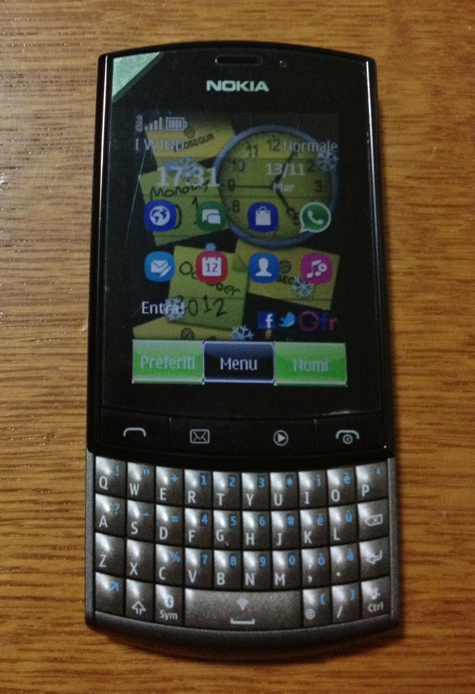 Nokia Asha 303 in Italy